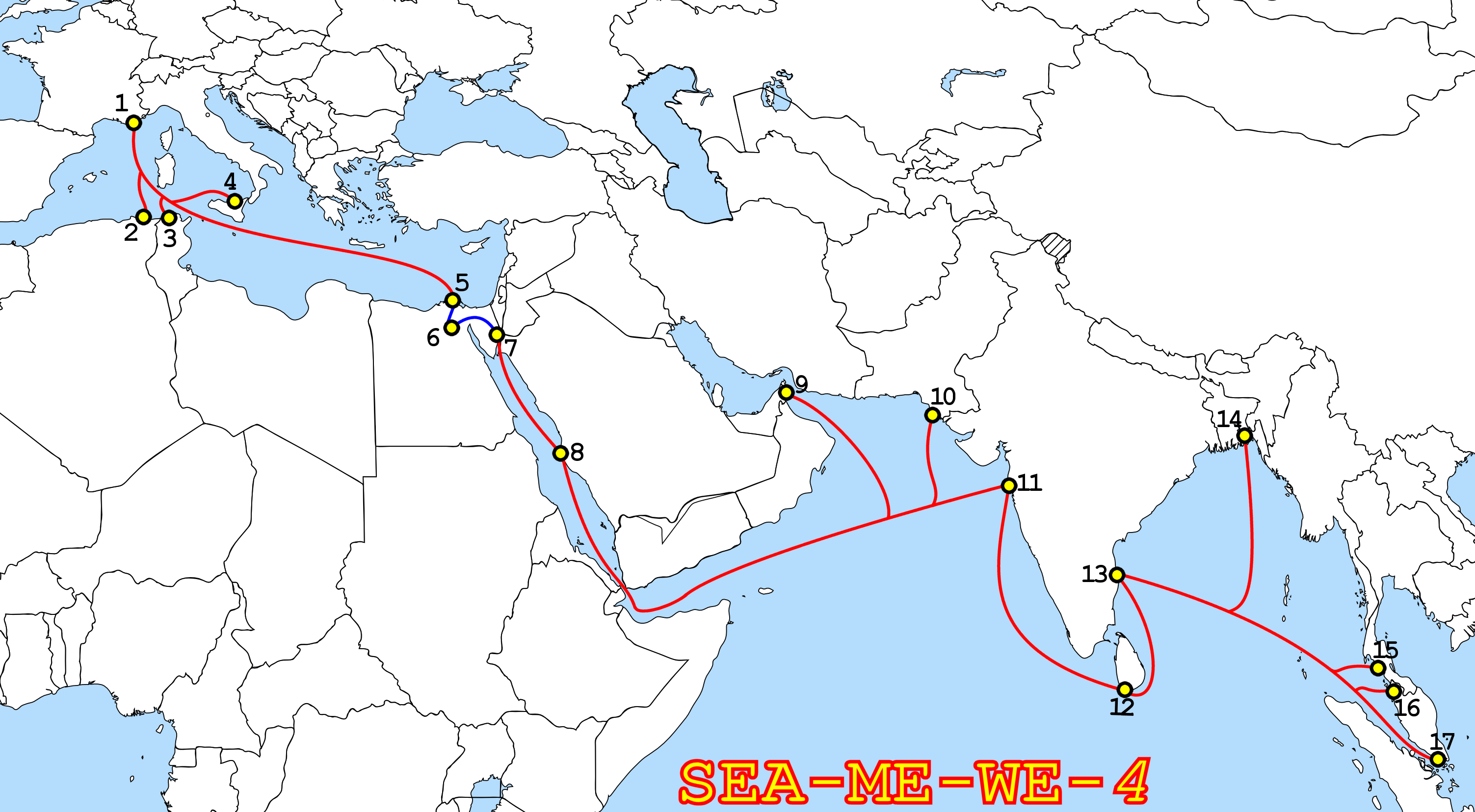 English (en): The route of the SEA-ME-WE-4 Telecoms Cable. The majority of it is submarine(shown in Red), in Egypt a segment is terrestrial(Blue). For more information regarding this and locations of the landing points (Numbered above), see the main article. Created by me from the Data from the official website. terrestrial submarine français (fr): La route du câble un câble sous-marin de télécommunications en fibres optiques SEA-ME-WE-4. terrestre sous-marin